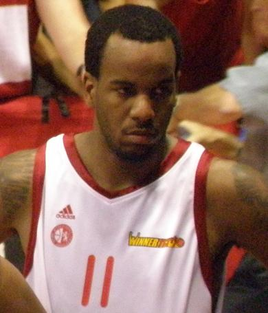 Leo Lyons, American basketball player playing for the "Hapoel Jerusalem" basketball club in Israel (2010)